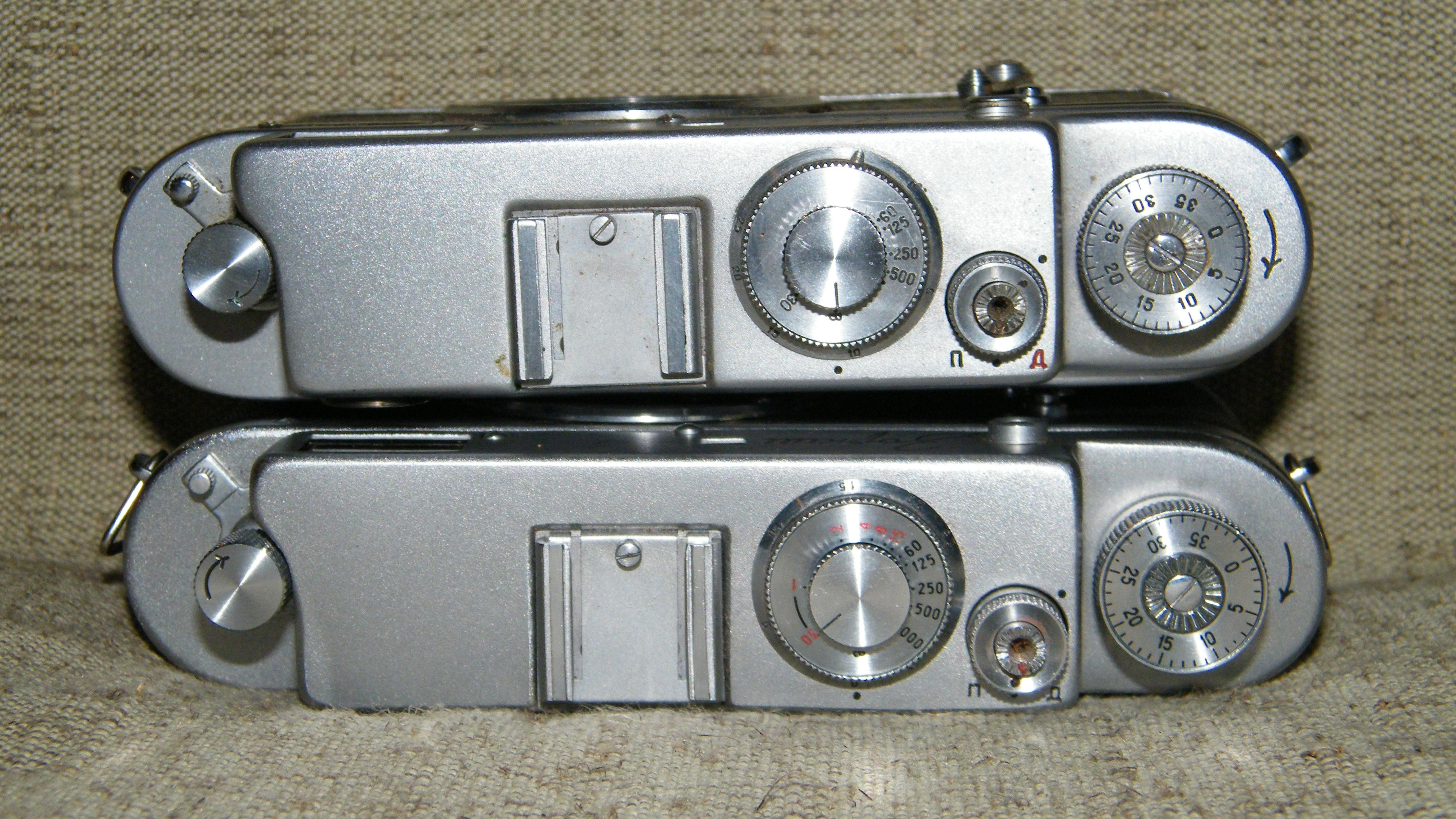 Фотоаппарат "Мир" и "Зоркий-4"